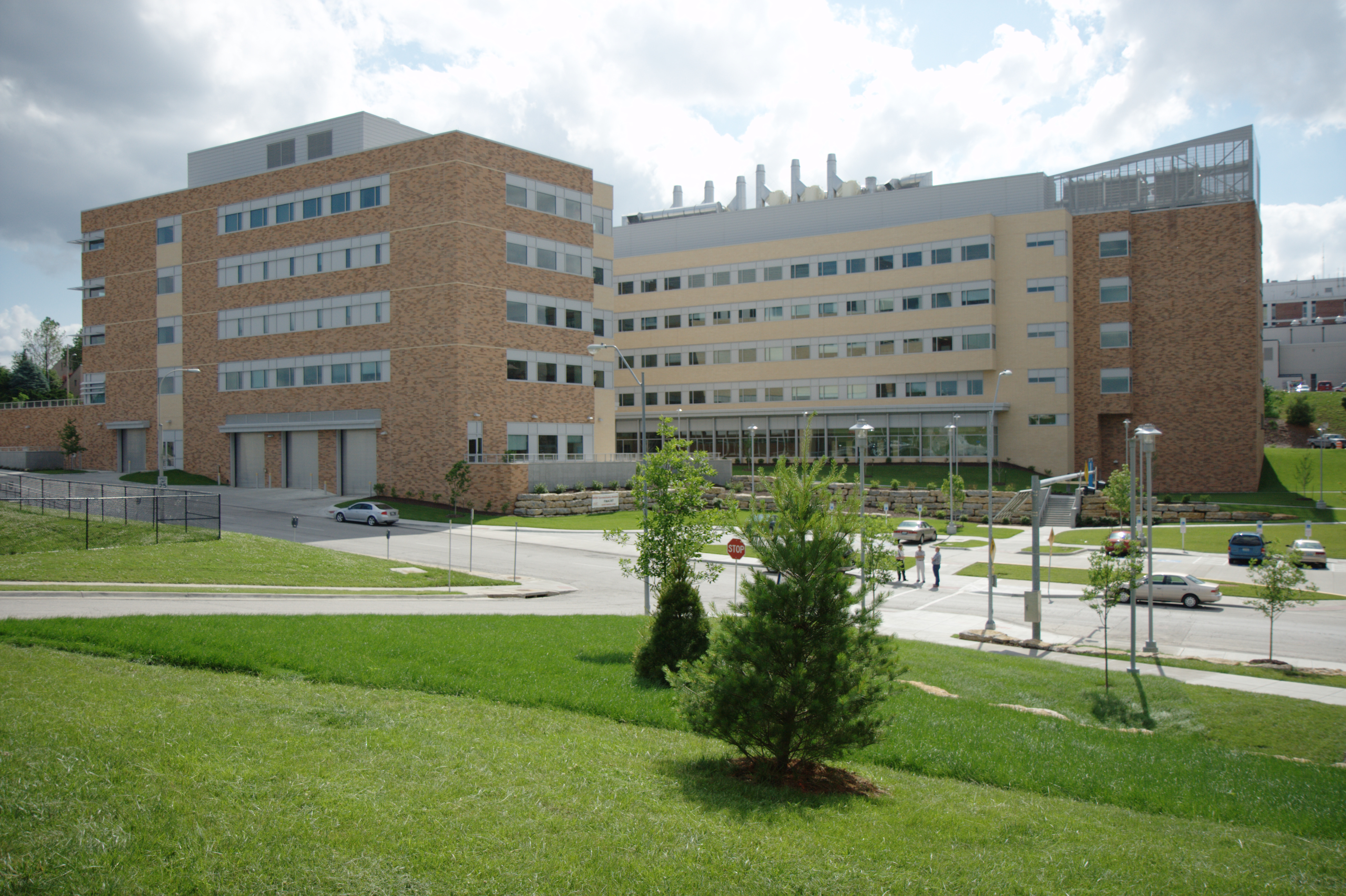 A rear view of the new health sciences building for the UMKC School of Medicine, located on Hospital Hill in Kansas City, Missouri, United States